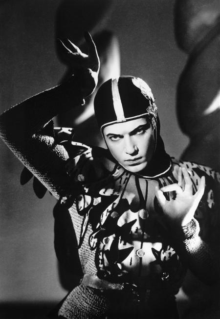 Studio photo